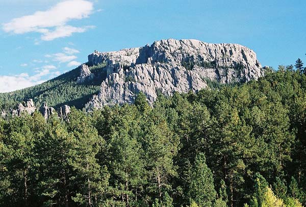 Picture of Harney Peak from Palmer Gulch